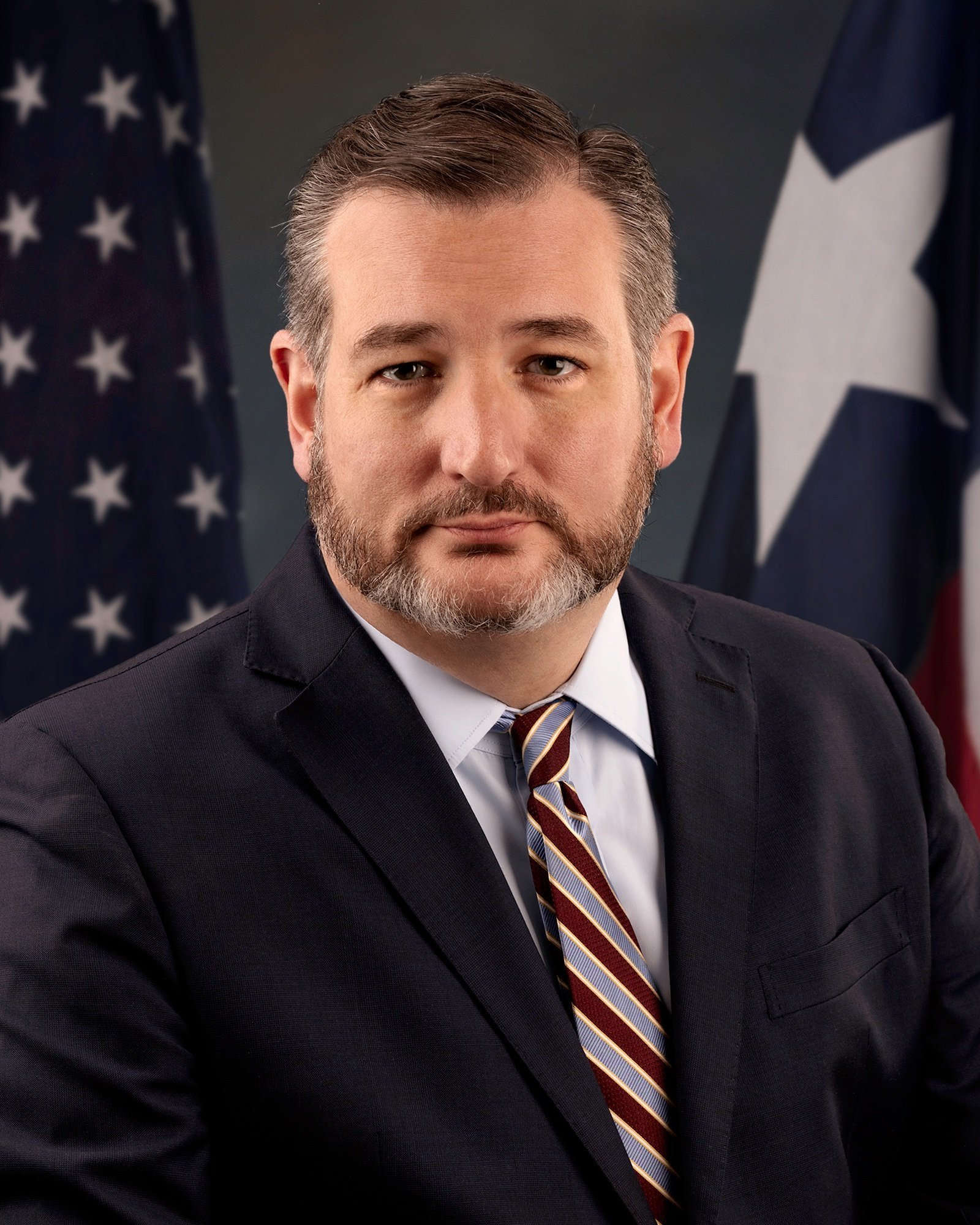 US Senator Ted Cruz official portrait, 2019